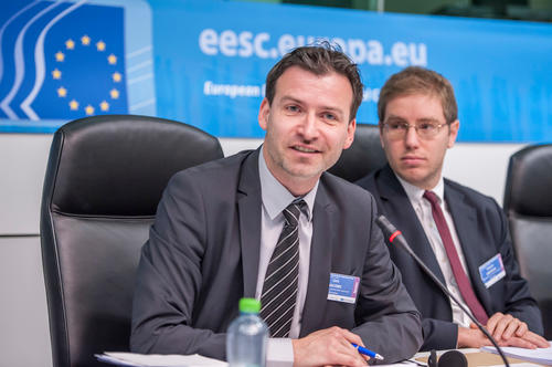 Dirk Jacobs presides the 10th European Integration Forum